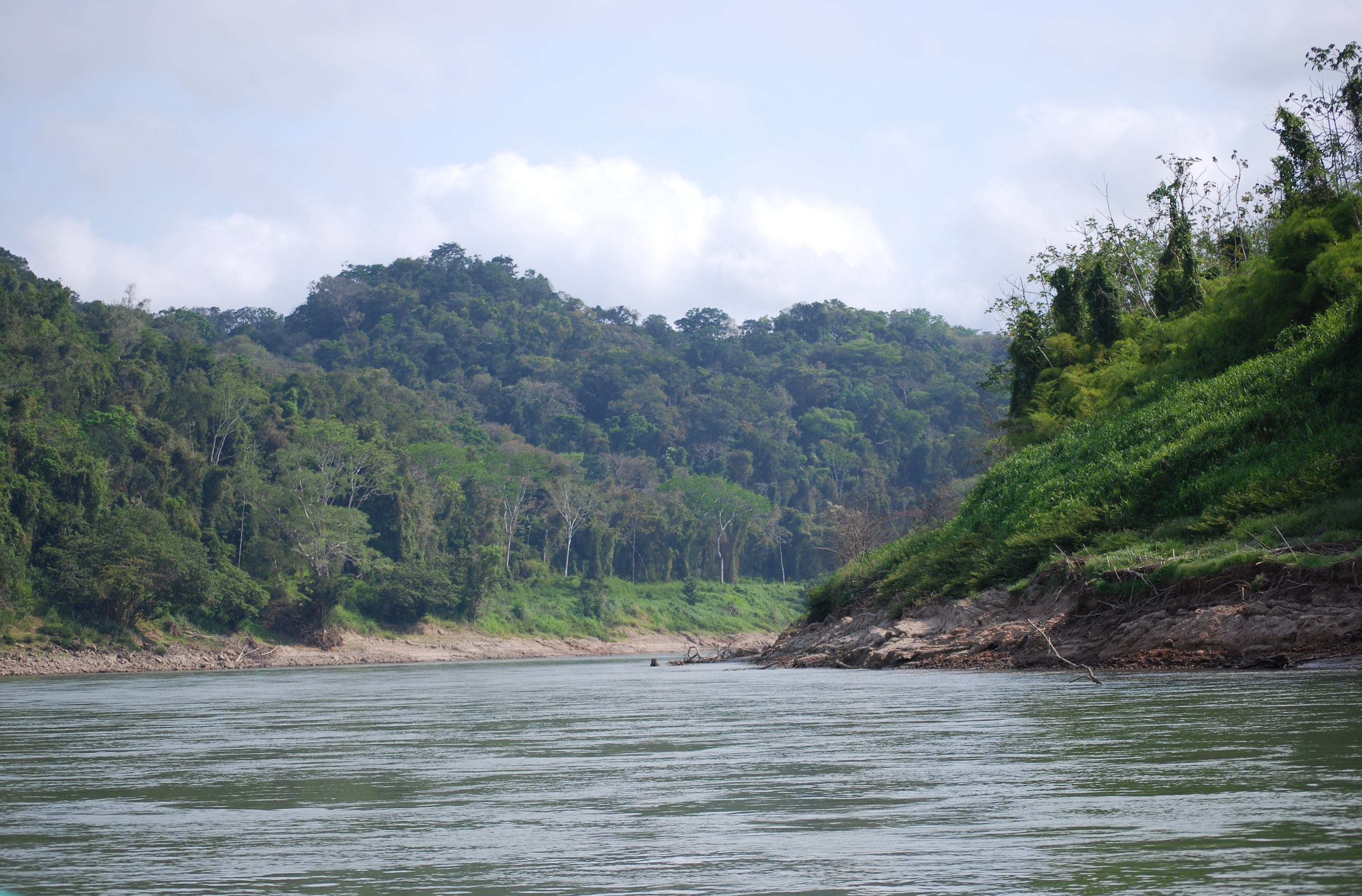 Usumacinta River near Yaxchilan with Chiapas to the left and Guatemala to the right